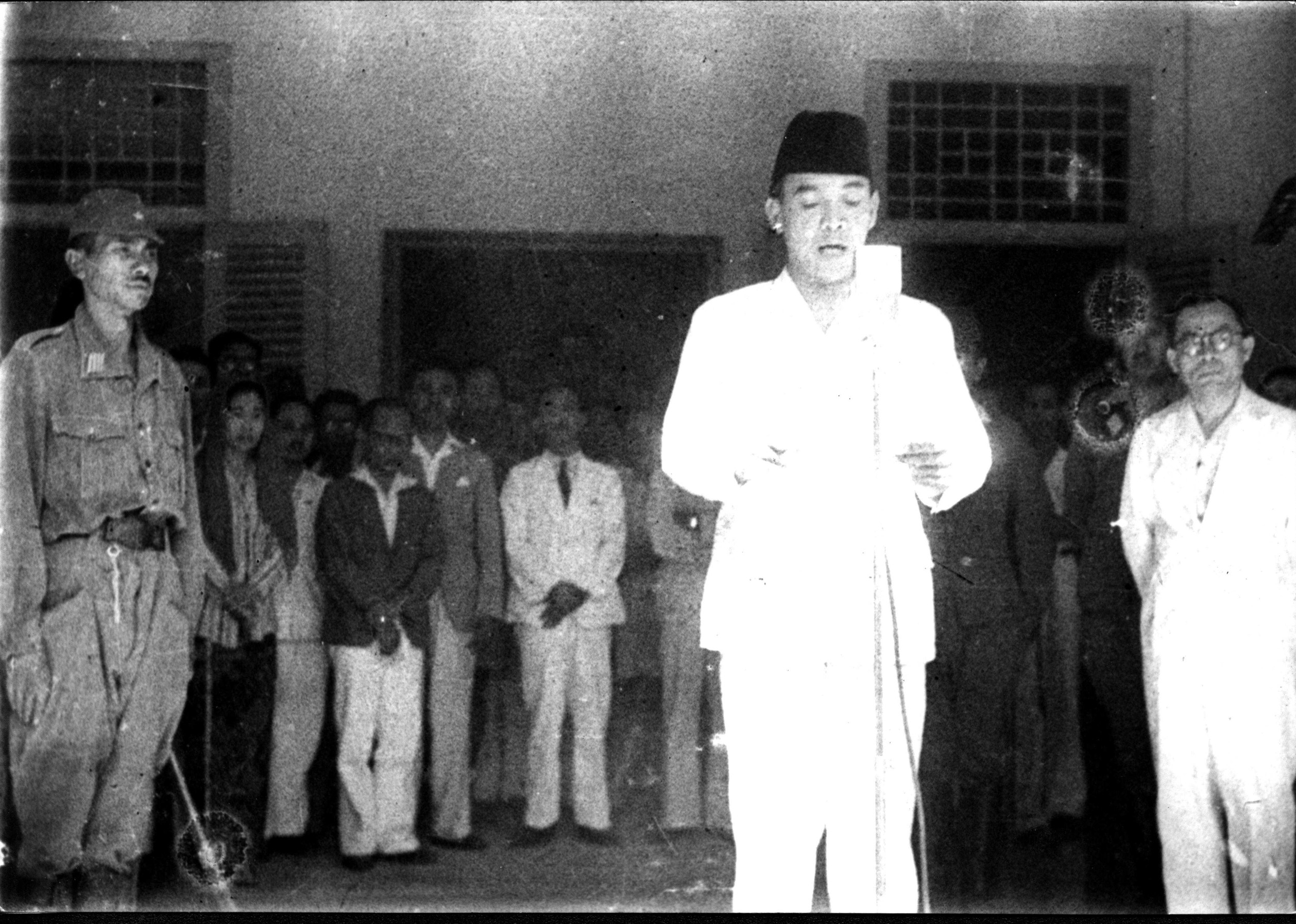 Sukarno, accompanied by Mohammad Hatta, declaring the independence of Indonesia at 10:00 am on Friday, 17 August 1945, at Pegangsaan Timur 56 (now Jalan Proklamasi), Jakarta.